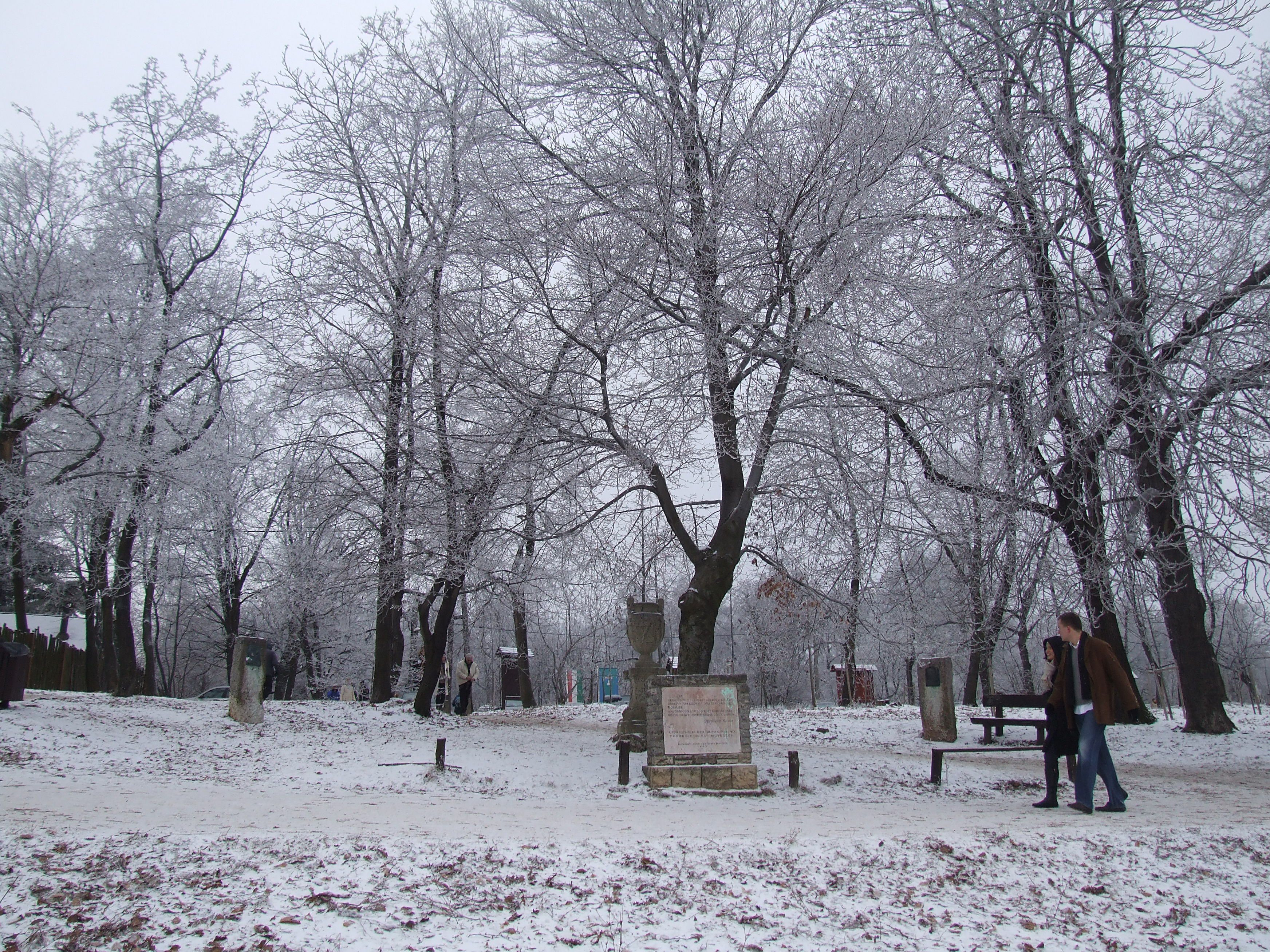 The new tree with the commemorative plaque and columns.